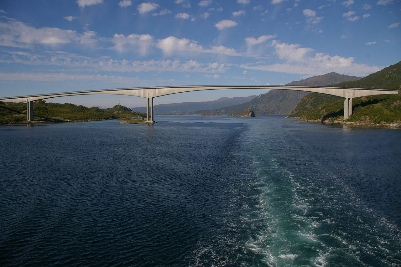 Raftsund Bridge (Raftsundbrua) between islands Hinnøya (right) and Austvågøya (left) in Hadsel municipality, Nordland county, Norway. Original description: 18 Lofoton 14 bridge